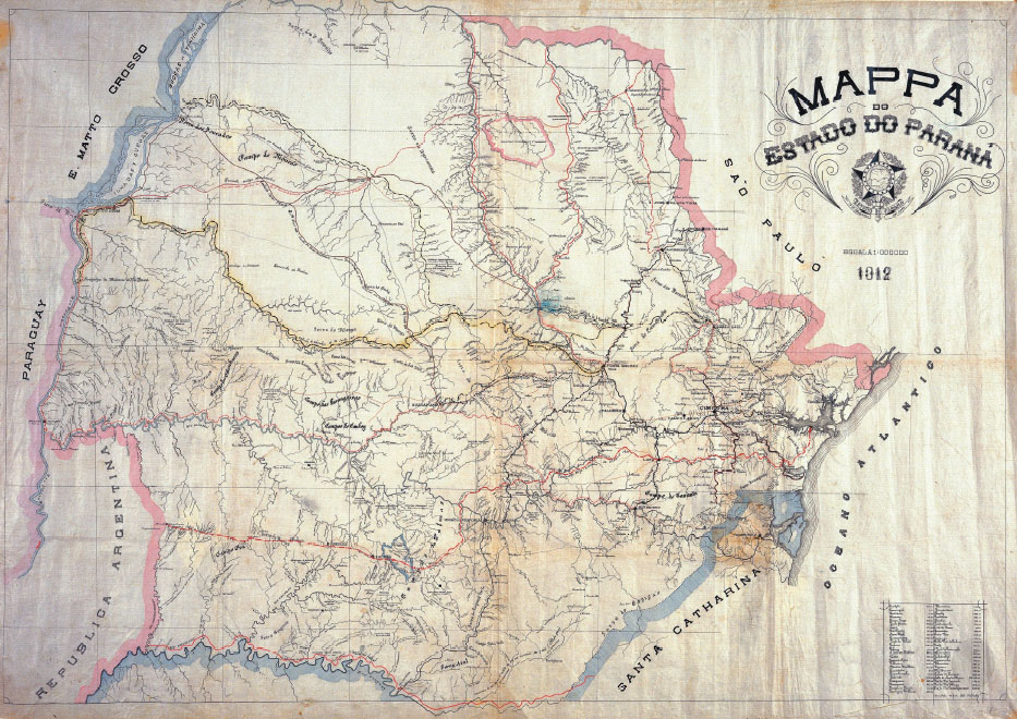 Historical map of Paraná in 1912.